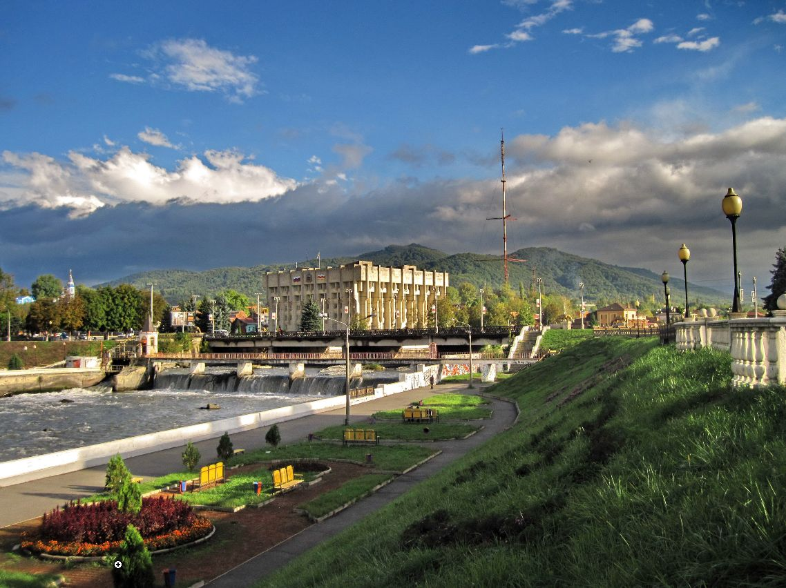 Vladikavkaz. The city administration building and the river Terek, TV-tower to the right